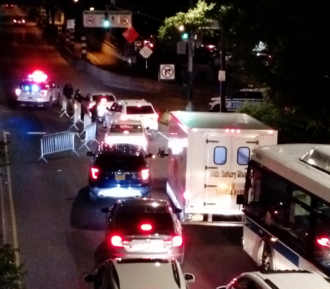 vehicular traffic merging lanes in front of a police checkpoint on Queens Plaza right before the Queensboro Bridge, which crosses into Manhattan; metal barriers reducing the roadway to one lane; police officers speaking to drivers before allowing passage; police cruisers nearby